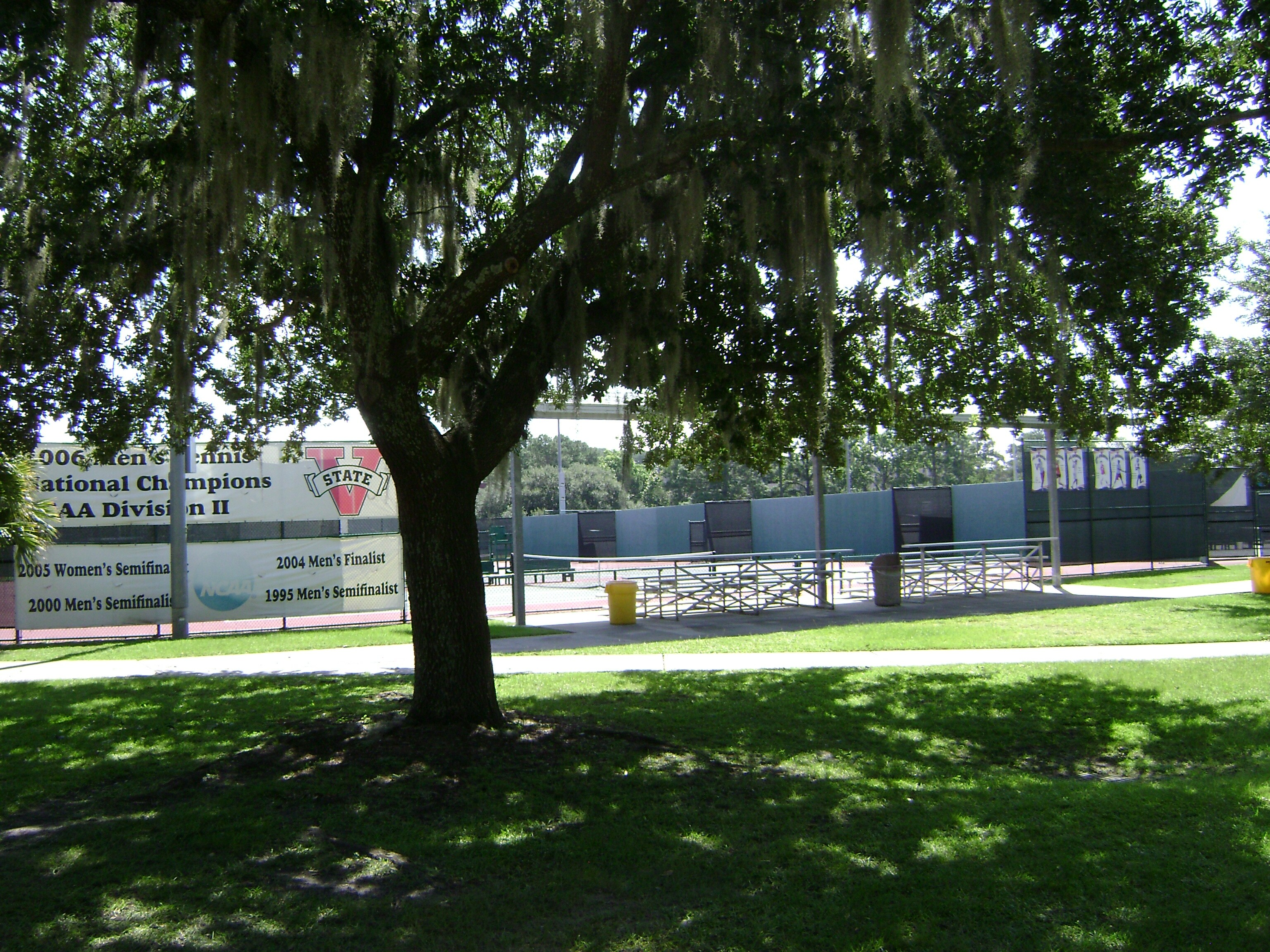 Tennis Courts at Valdosta State University in Valdosta, Lowndes County, Georgia